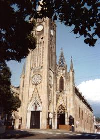 Author: Rolf Obermaier